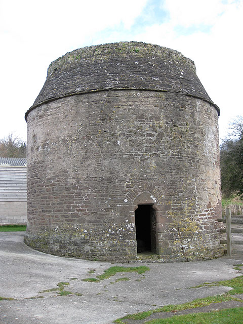 14th-century dovecot at Garway, Herefordshire, with 666 nesting spaces